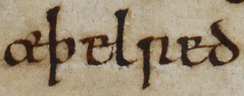 The name of Æðelræd II, King of the English (died 1016) as it appears on folio 152r of British Library Cotton MS Tiberius B I (the "C" version of the Anglo-Saxon Chronicle): "Æþelred".